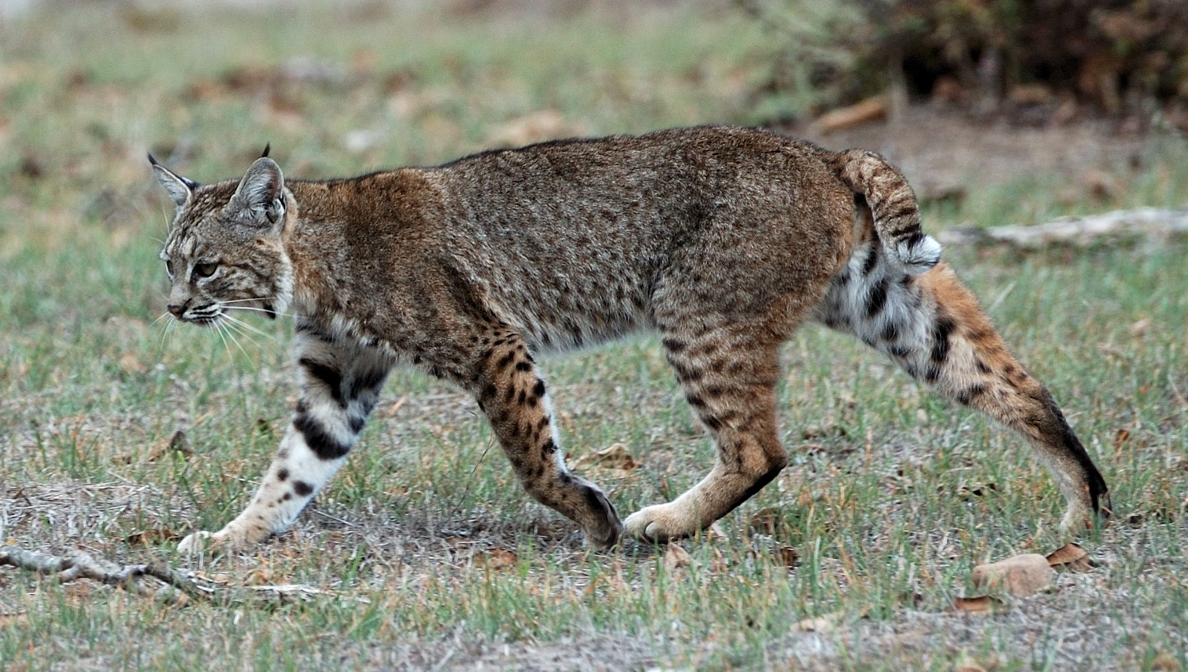 Scene from Calero Creek Trail